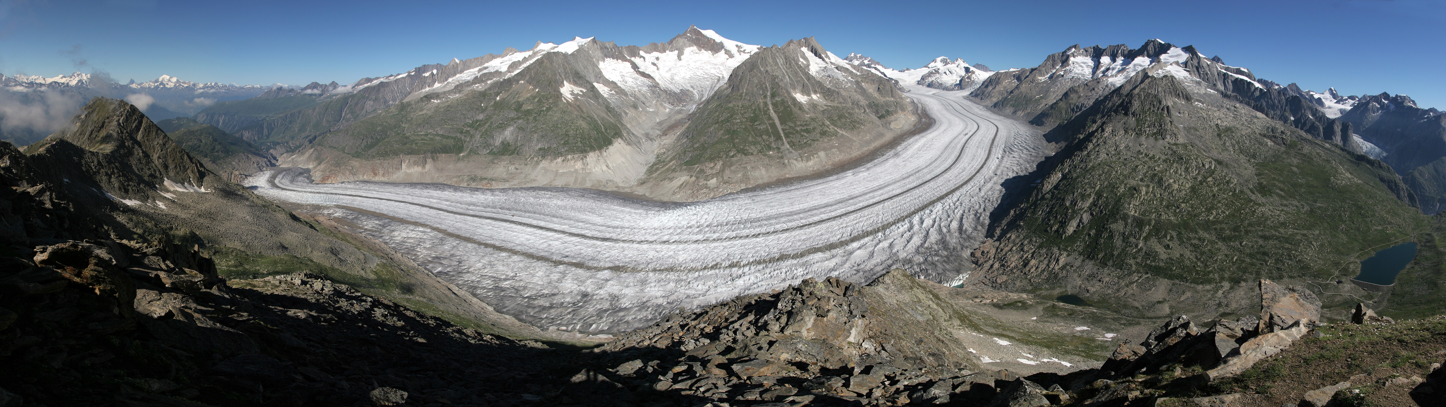 220° panorama view of the Aletschgletscher. Taken from the Eggishorn and made by stitching 9 single pictures with Hugin.